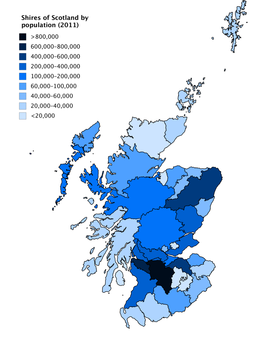 A choropleth map showing population of the historic Shires of Scotland in 2011, based on data from Scotland's Census. Values were calculated by adding the population of all the civil parishes in each shire. Some parishes do not have data in the Census (1 in Fife, 2 in Forfarshire, 1 in Lanarkshire, 2 in Peeblesshire and 2 in Perthshire), and these parishes are not counted in the population of the shires.